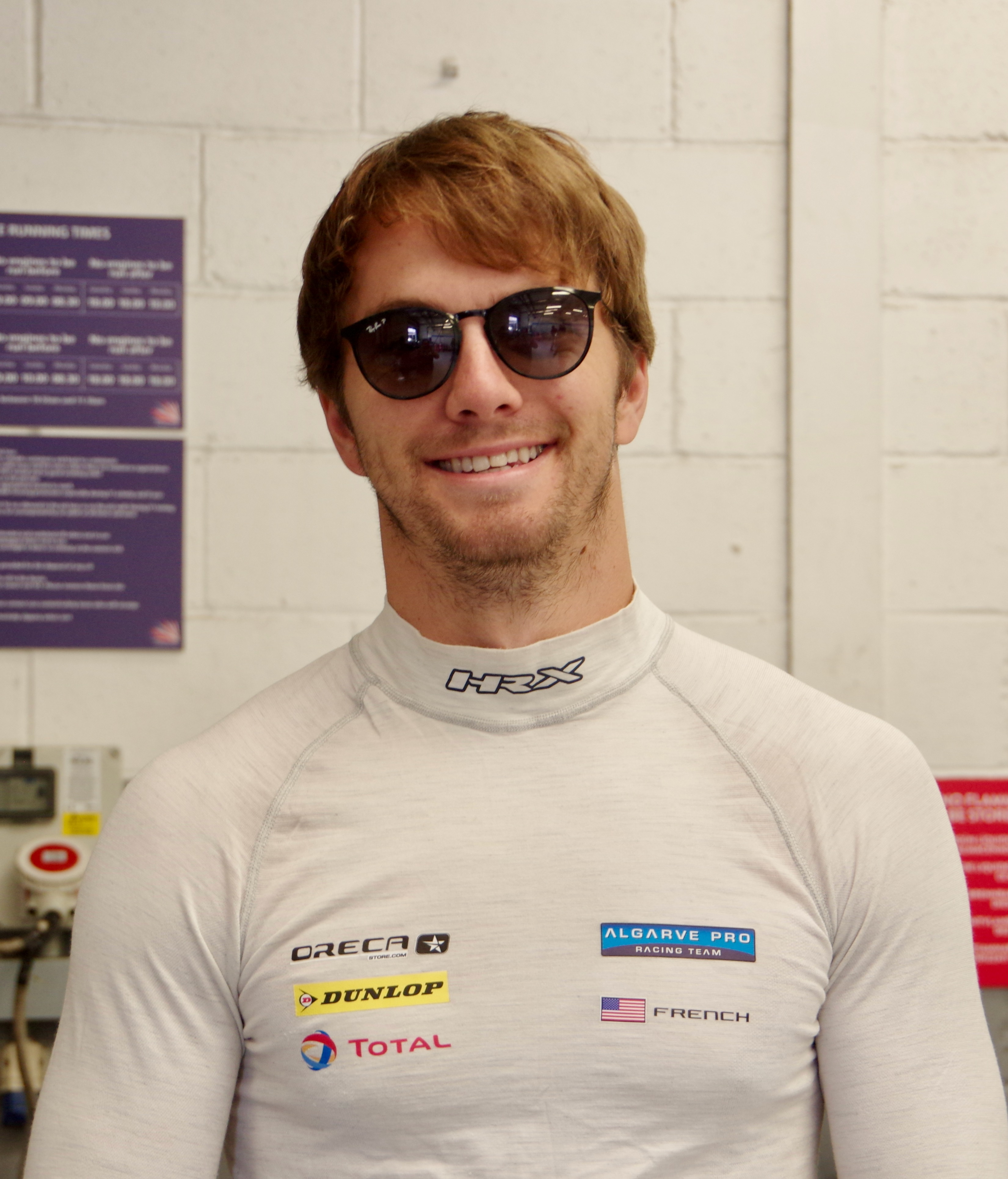 European Le Mans Series Silverstone 2019 - The 4 Hours of Silverstone